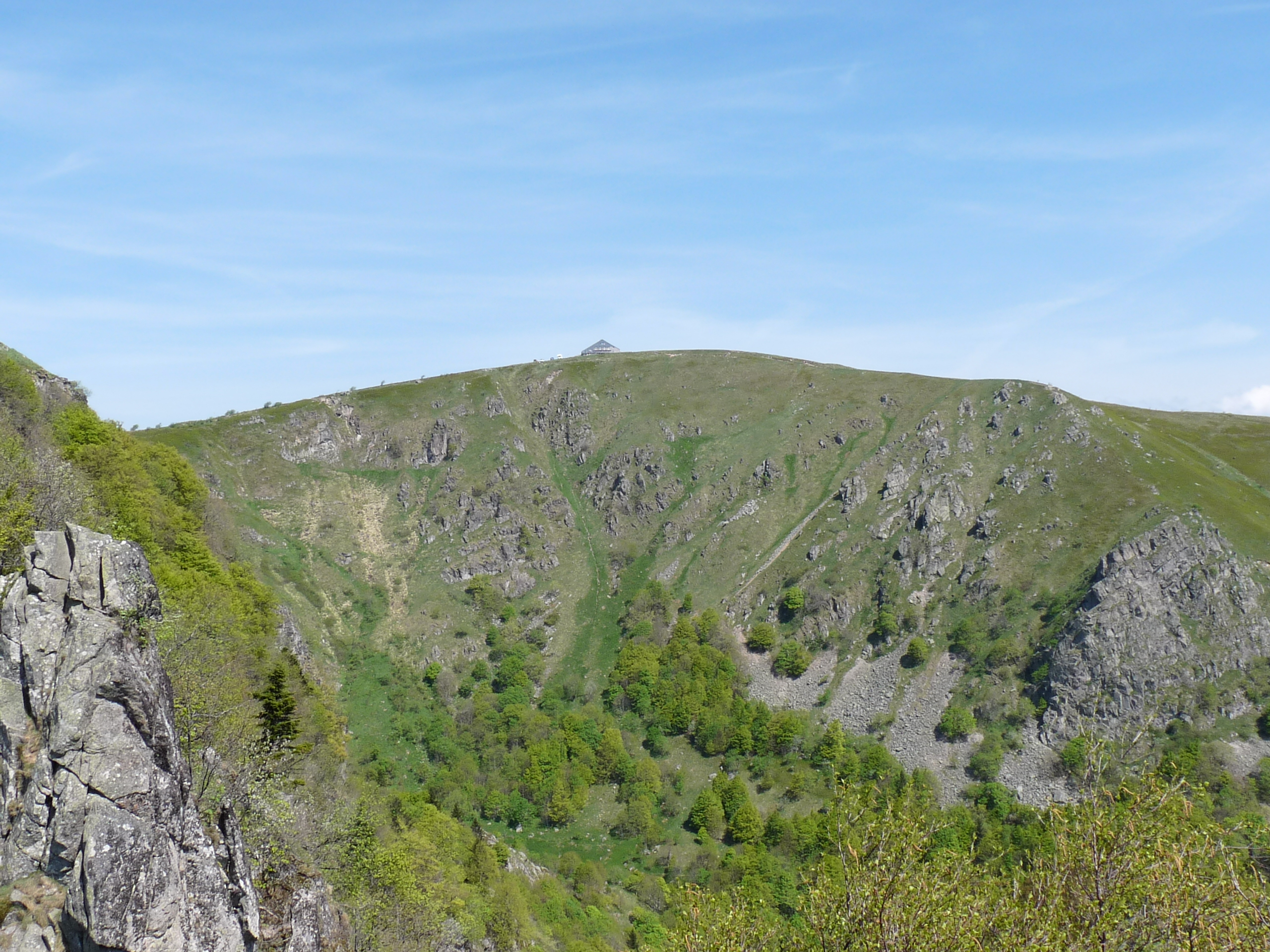 Le Hohneck, Vosges, France.